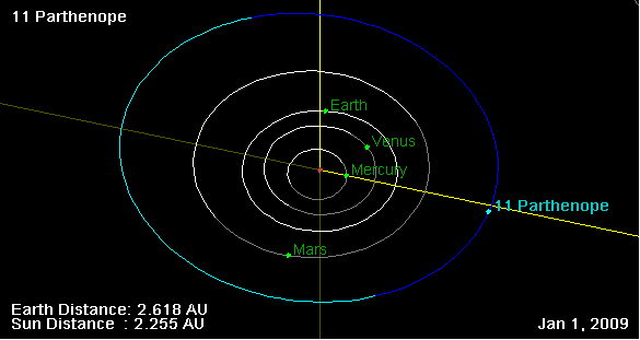 11 Parthenope orbit, and his position on 01 Jan 2009 (NASA Orbit Viewer applet)